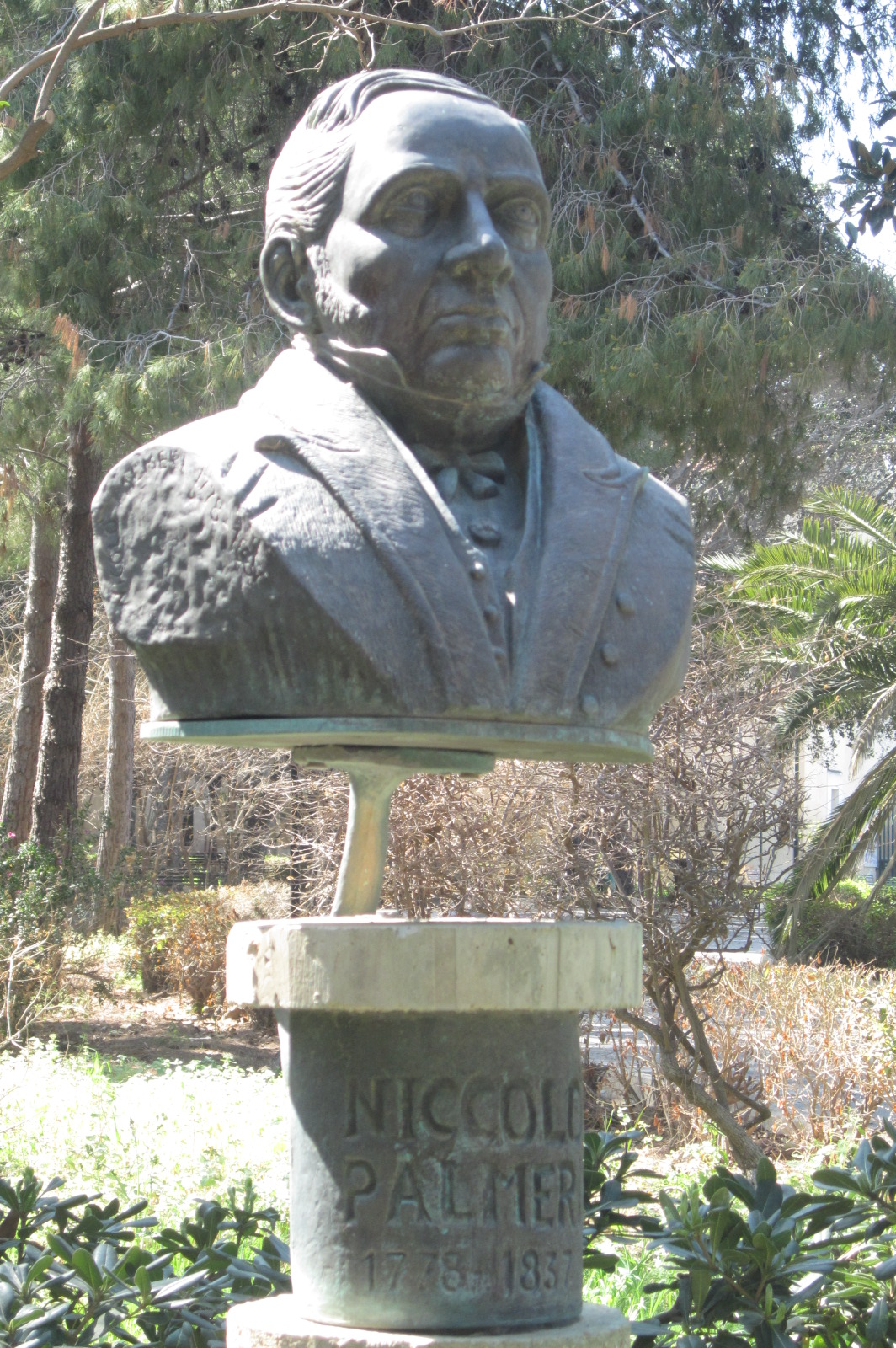 Sculpture of Niccolo Palmeri, Termini Imerese.